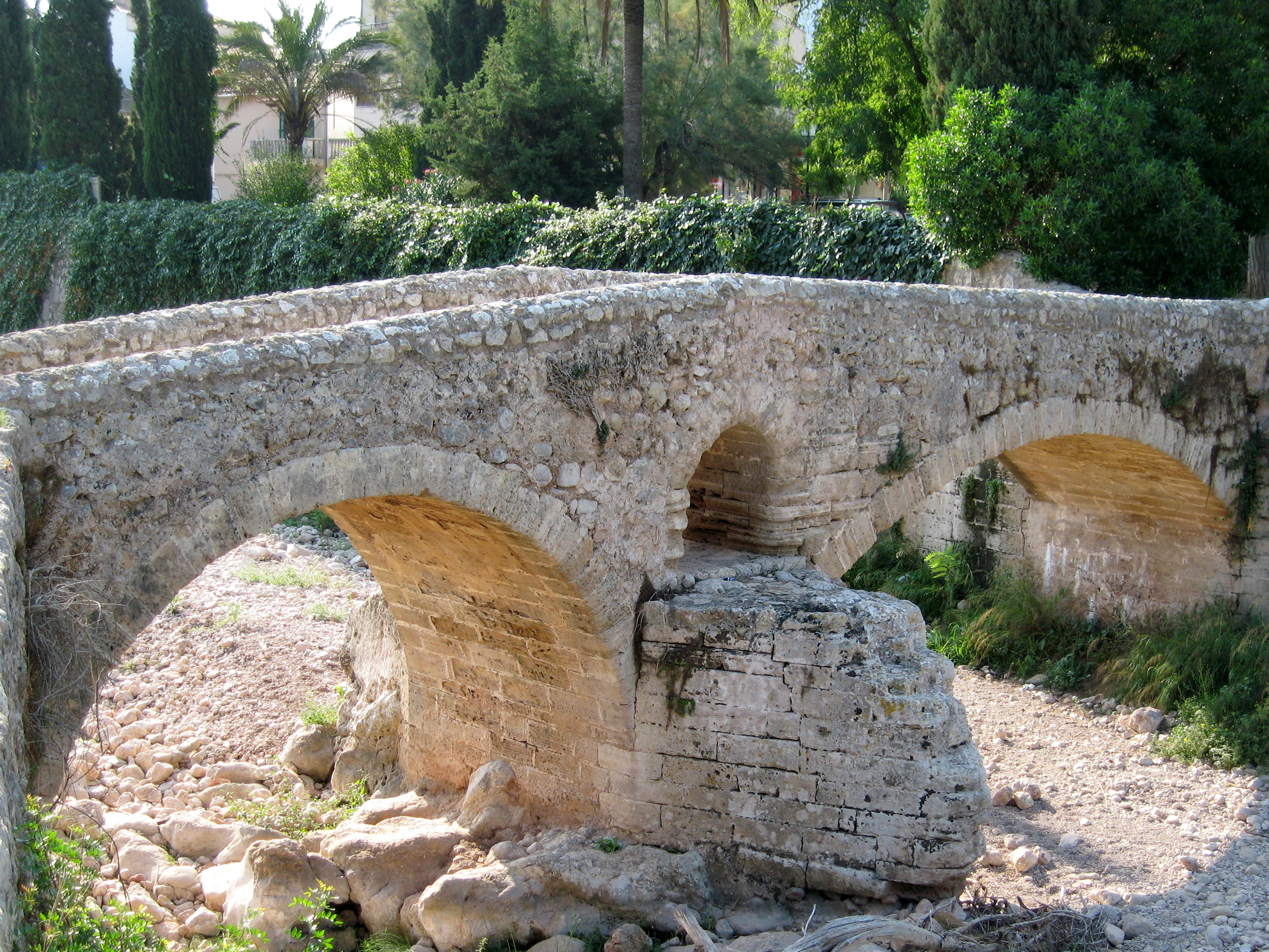 Roman Bridge (Pont Romà) in Pollença, Majorca, Spain